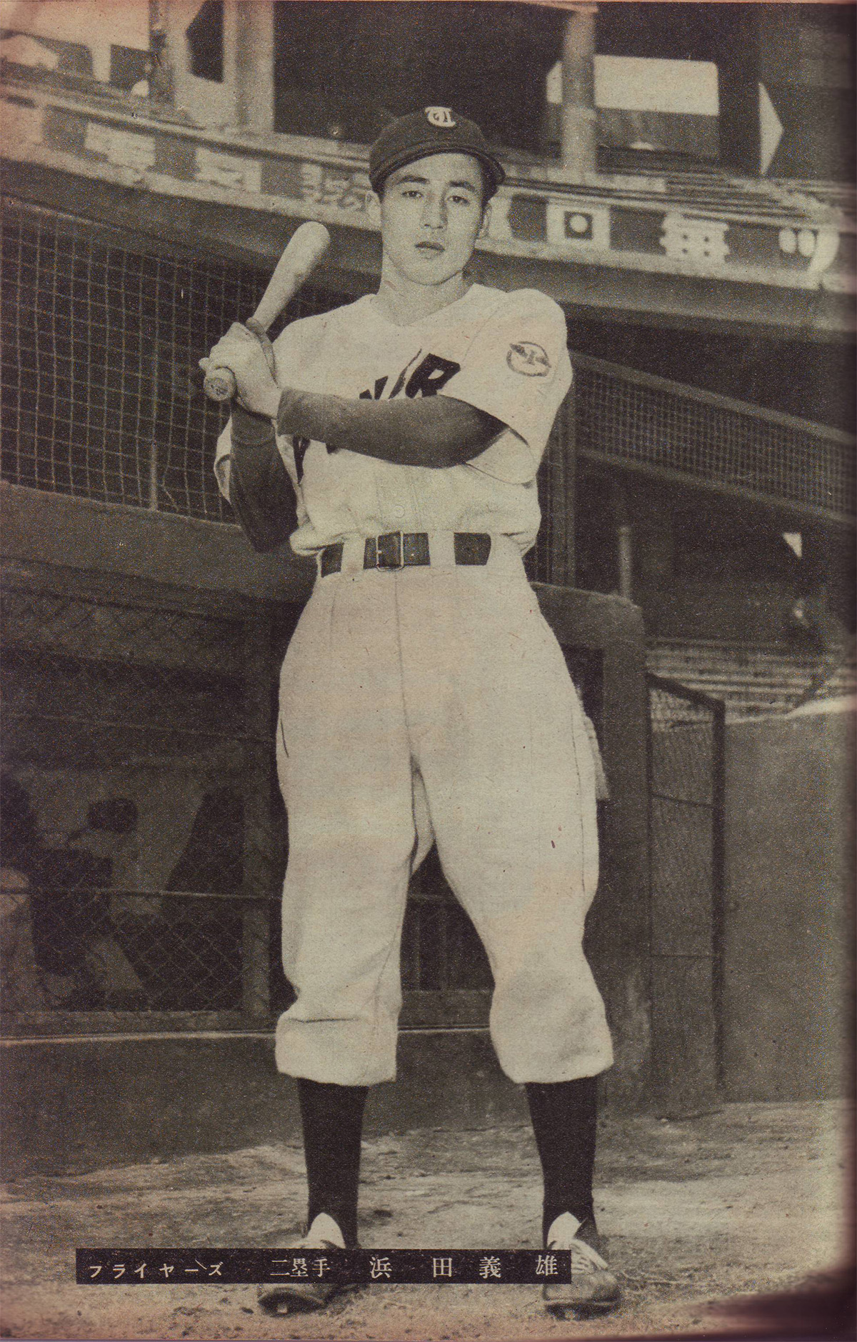 Yoshio Hamada (Tokyu Flyers). taken in 1950.